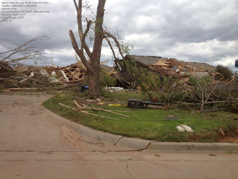 EF3 damage to homes in Woodward, Oklahoma.